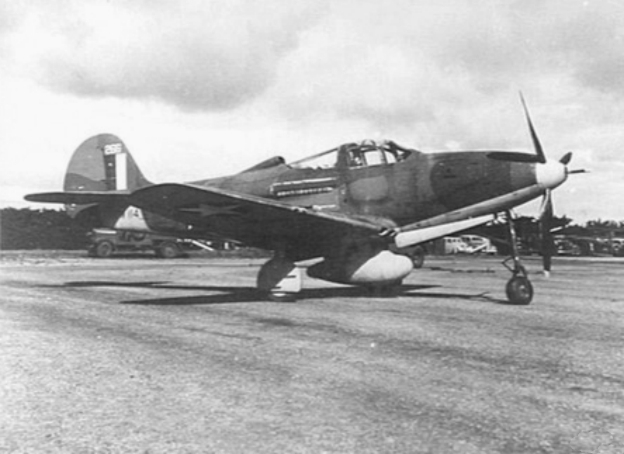 A Bell Airacobra I (BW114) in Australia. BW114 was c/n 14-306 and came to Australia in April 1942 to train RAAF pilots. It was damaged on 10 February 1943 and written off on 1 April 1944. Note the US star on the wing.